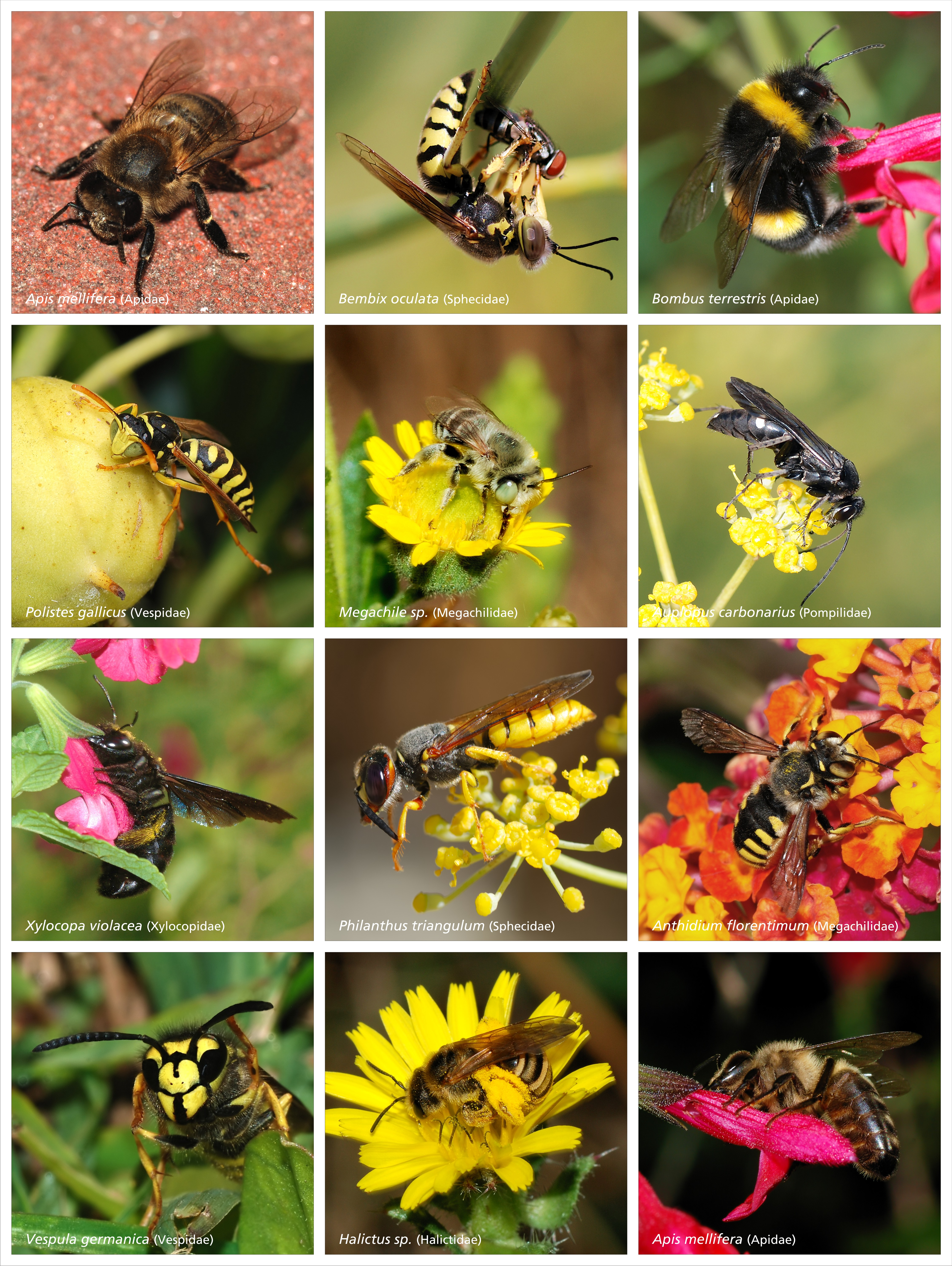 A poster of bees and wasps